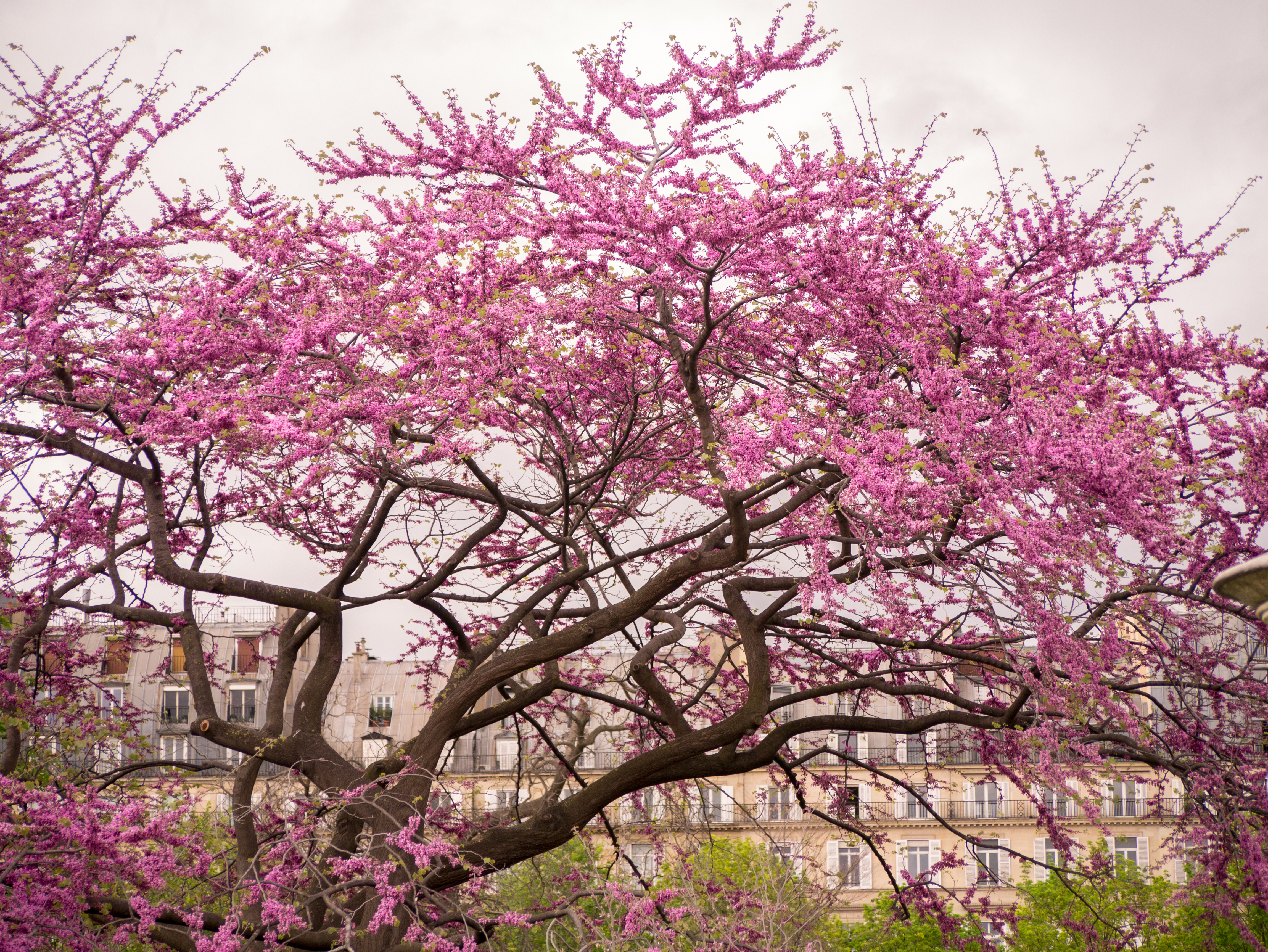 Spring in Paris, Jardin des Tuileries